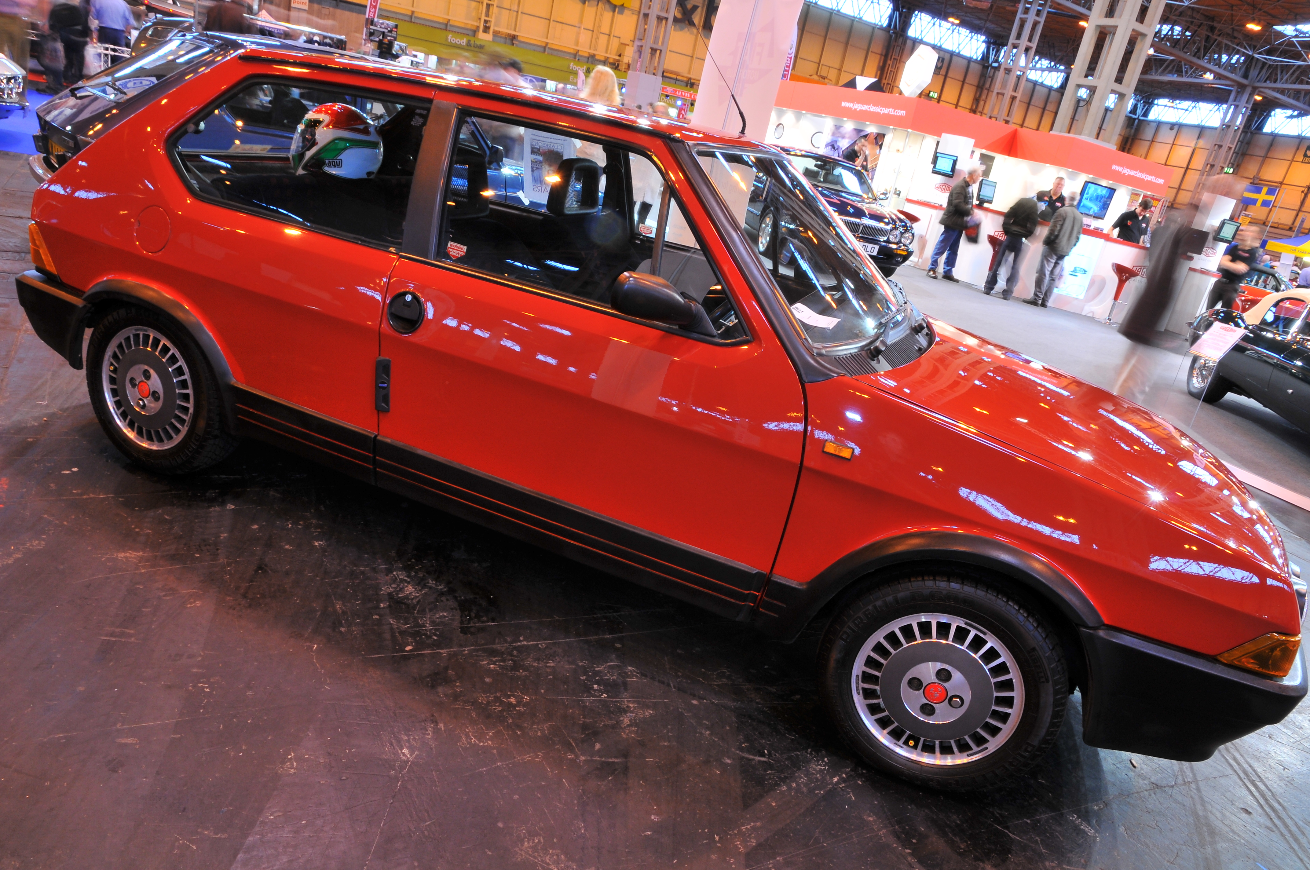 2011 NEC Classic Car Show Fiat Strada Fiat Motor Club Display